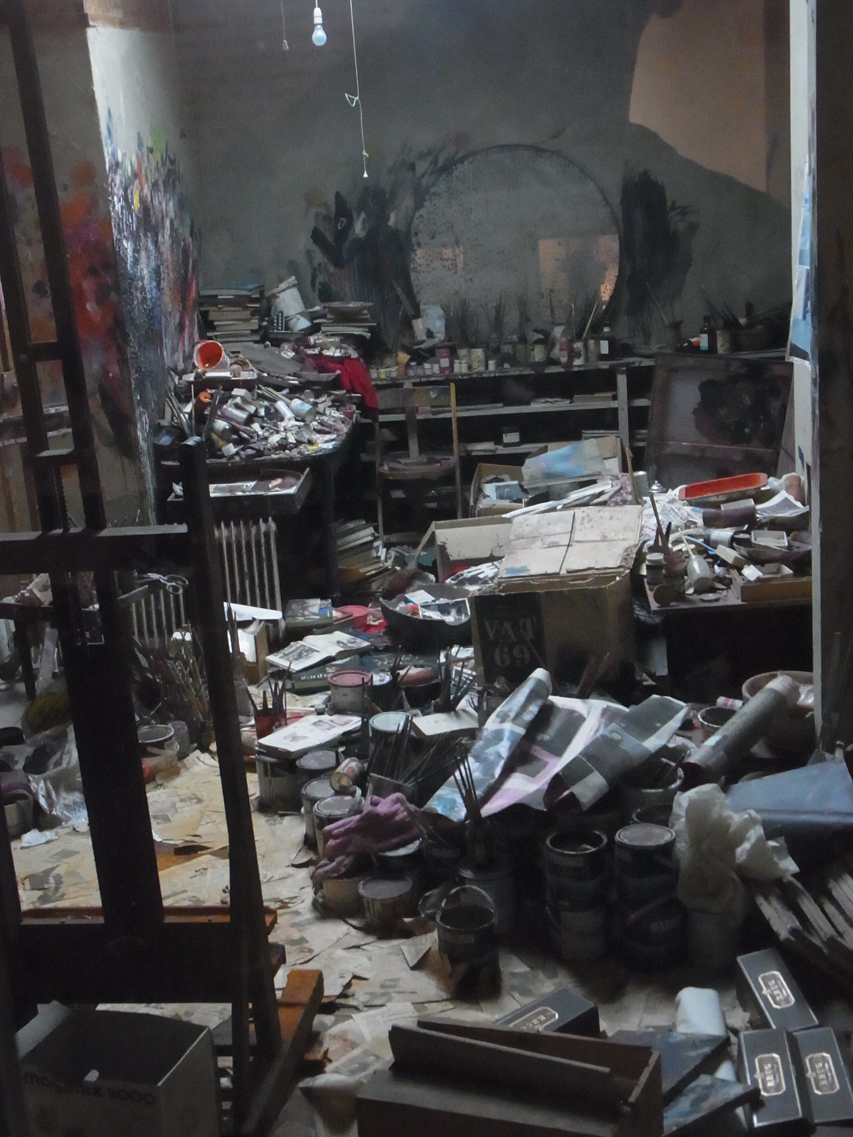 Francis Bacon's studio at the City Gallery The Hugh Lane, Dublin, Ireland.